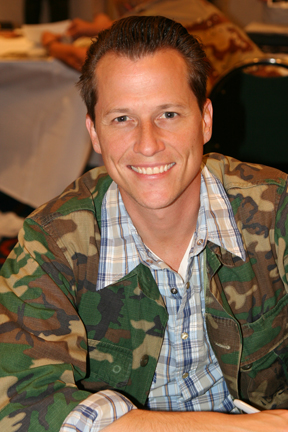 American actor Corin Nemec.Corin Nemec - Apr 2006